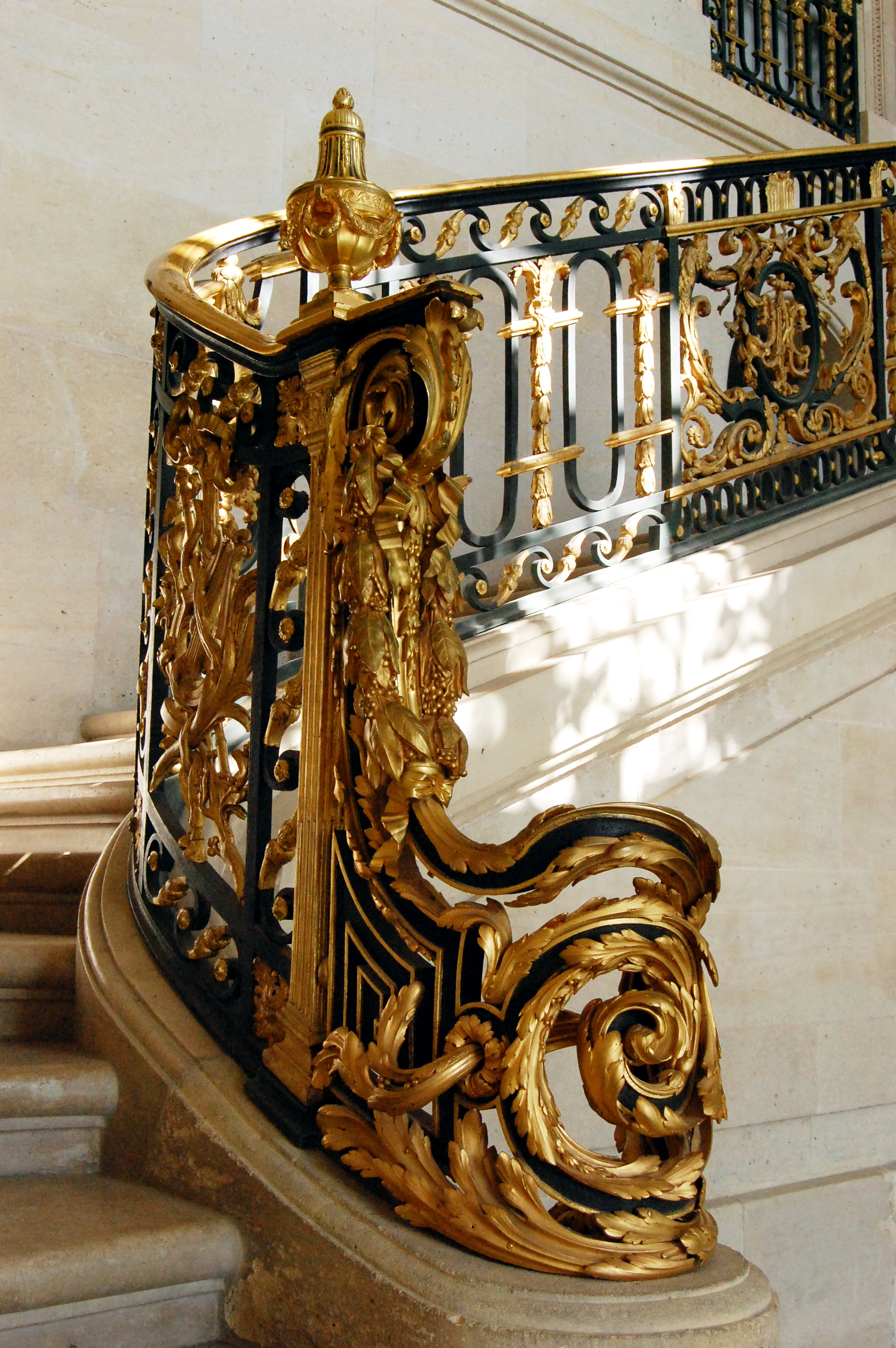 Beginning of stairway's ramp indide of the Petit Trianon